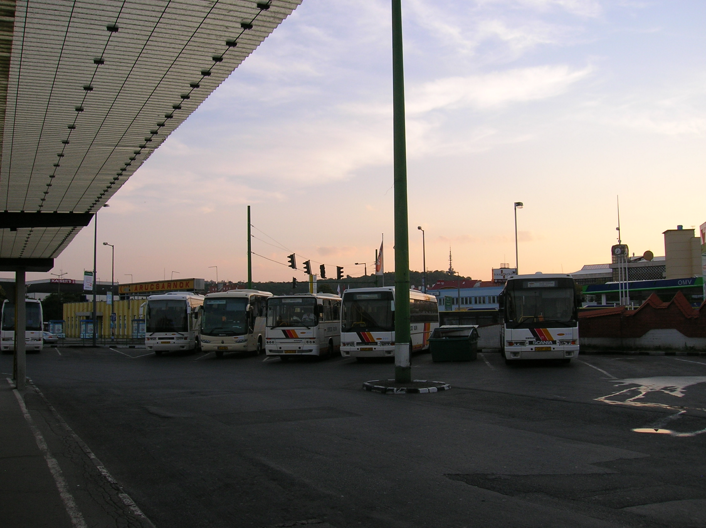 Buses of Borsod Volán public transport company, Búza Square bus station, Miskolc, Hungary.